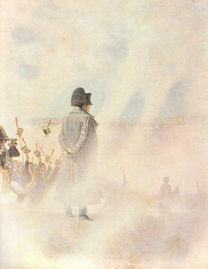 At last that significant day Napoleon, his marshals and soldiers had been waiting for long time has come. They reached Moscow. On September,2 at 2 p.m. Napoleon rode to the Poklonnaya Hill 3 versts (about 2 miles) far from Moscow and stopped... The splendid view he had never seen before spread before his eyes! He saw Moscow with the numerous domes of churches glaring in the bright sun and crowned by the fantastic Kremlin, majestic in its unique beauty. It was a strange and mysterious city, the ancient capital of Russia... Napoleon rode to the Dorogomilovskaya gate and stopped again. He was sure there he should be met with the deputation from Moscow entreating him to spare their city... But nobody came to him. After some time aome offices rode to him and reported Moscow was empty..